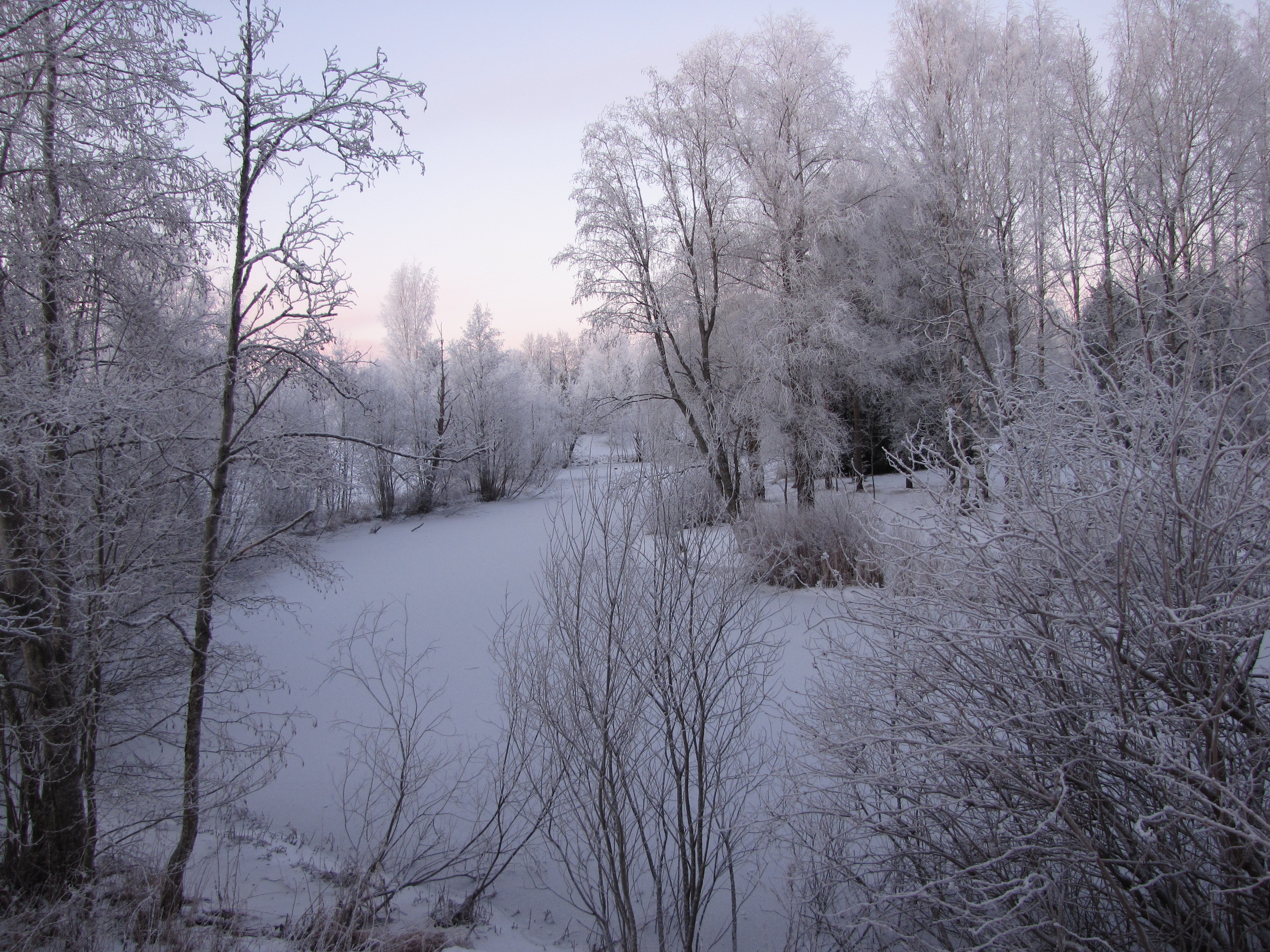 Kauhajoki river in Kauhajoki, Finland.